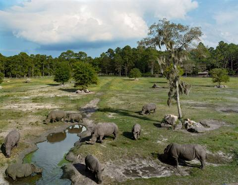 A bird's-eye view of a white rhinoceros enclosure at White Oak.